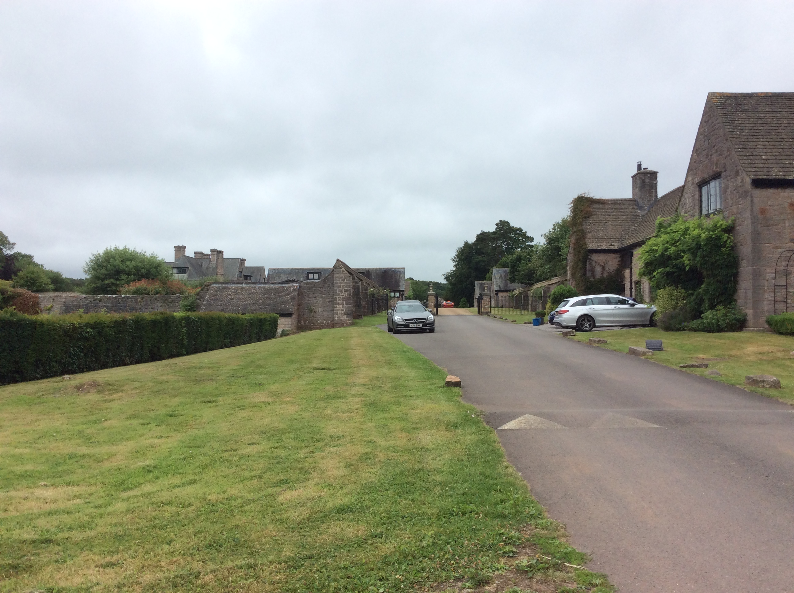 Mounton House, House and Stables, Mounton, Monmouthshire